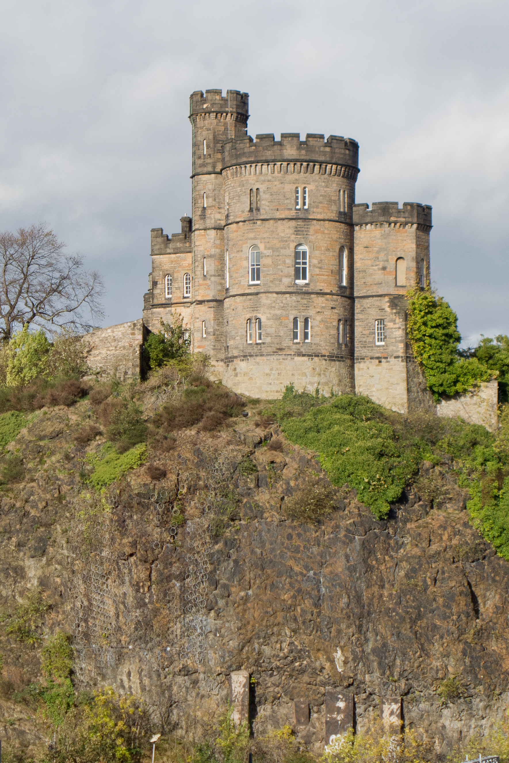 Casa del Gobernador, Edimburgo, Escocia, Reino Unido.